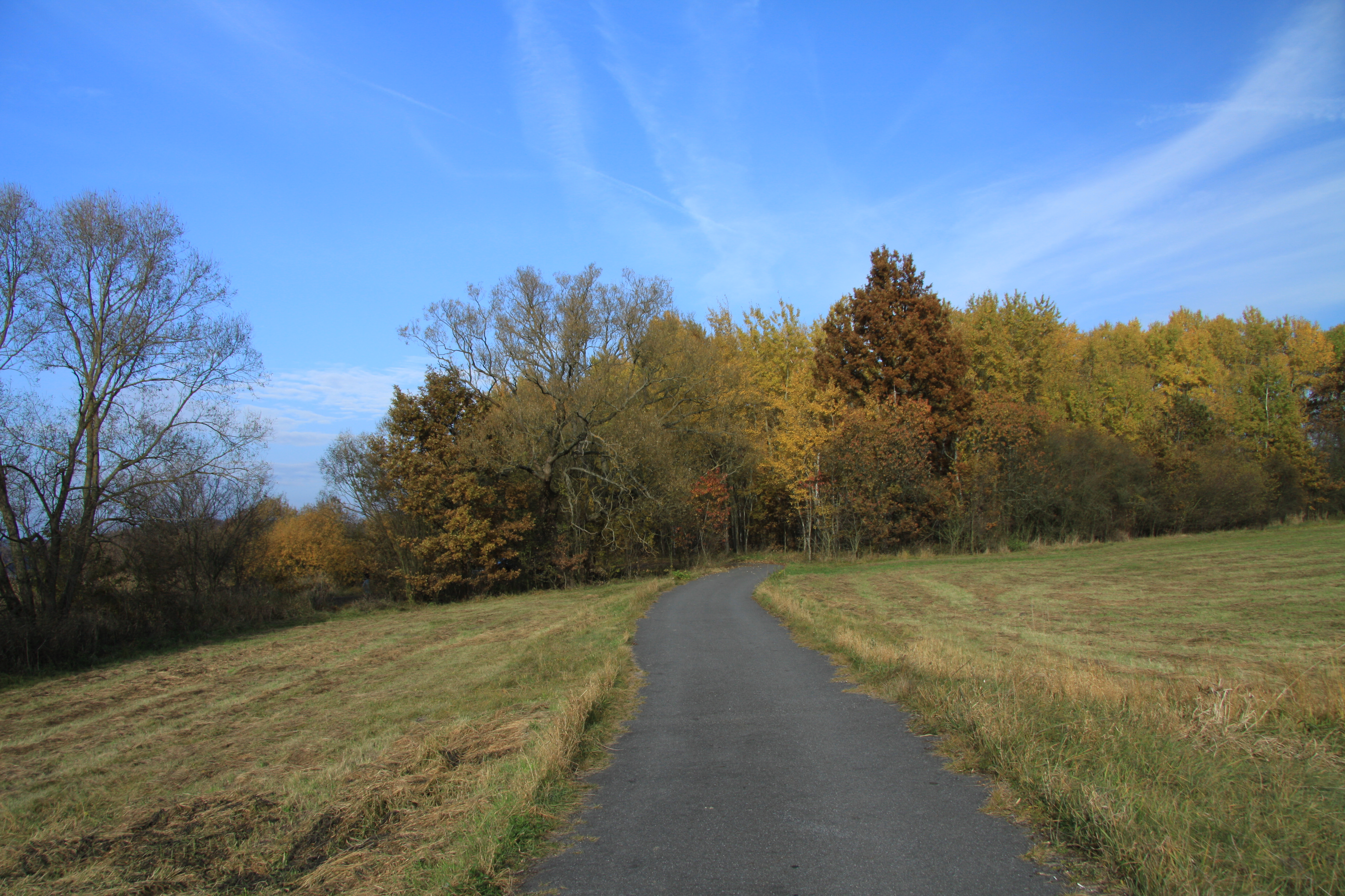 National nature reserve Řežabinec a Řežabinecké tůně in autumn 2011 in Písek District, Czech Republic